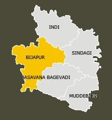 BJP dist